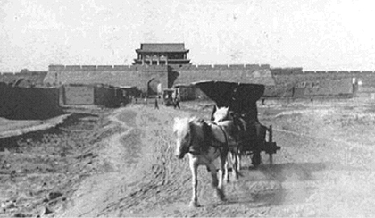 Highway outside the city of Yinchuan in Ningxia province during the 1930's in the Republic of China